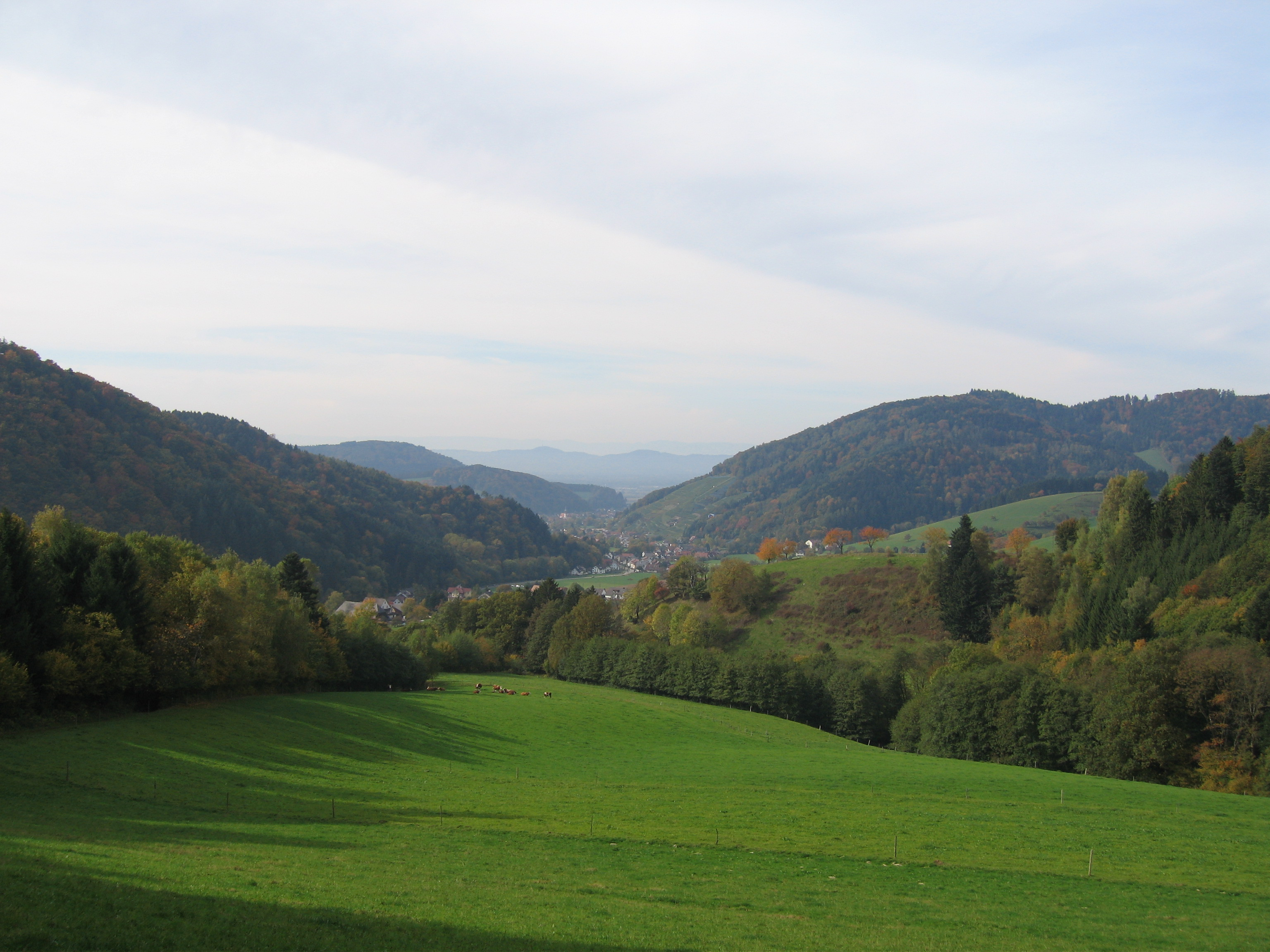 View of Glottertal